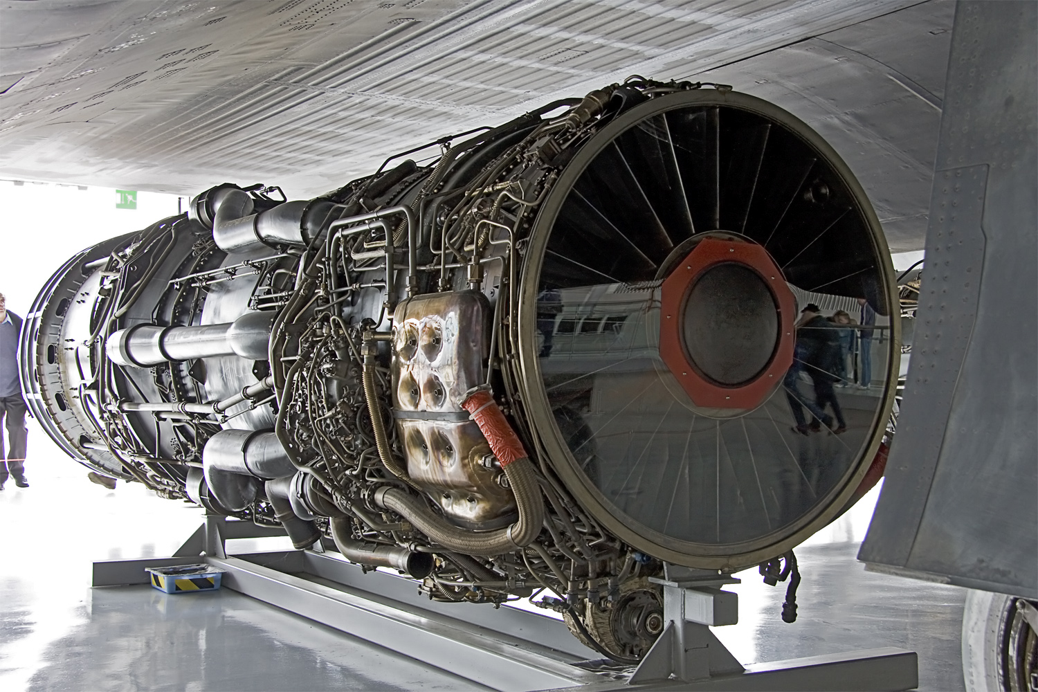 One of the jet engines powering the SR-71 Blackbird. Seen at Duxford Imperial War Museum, UK.